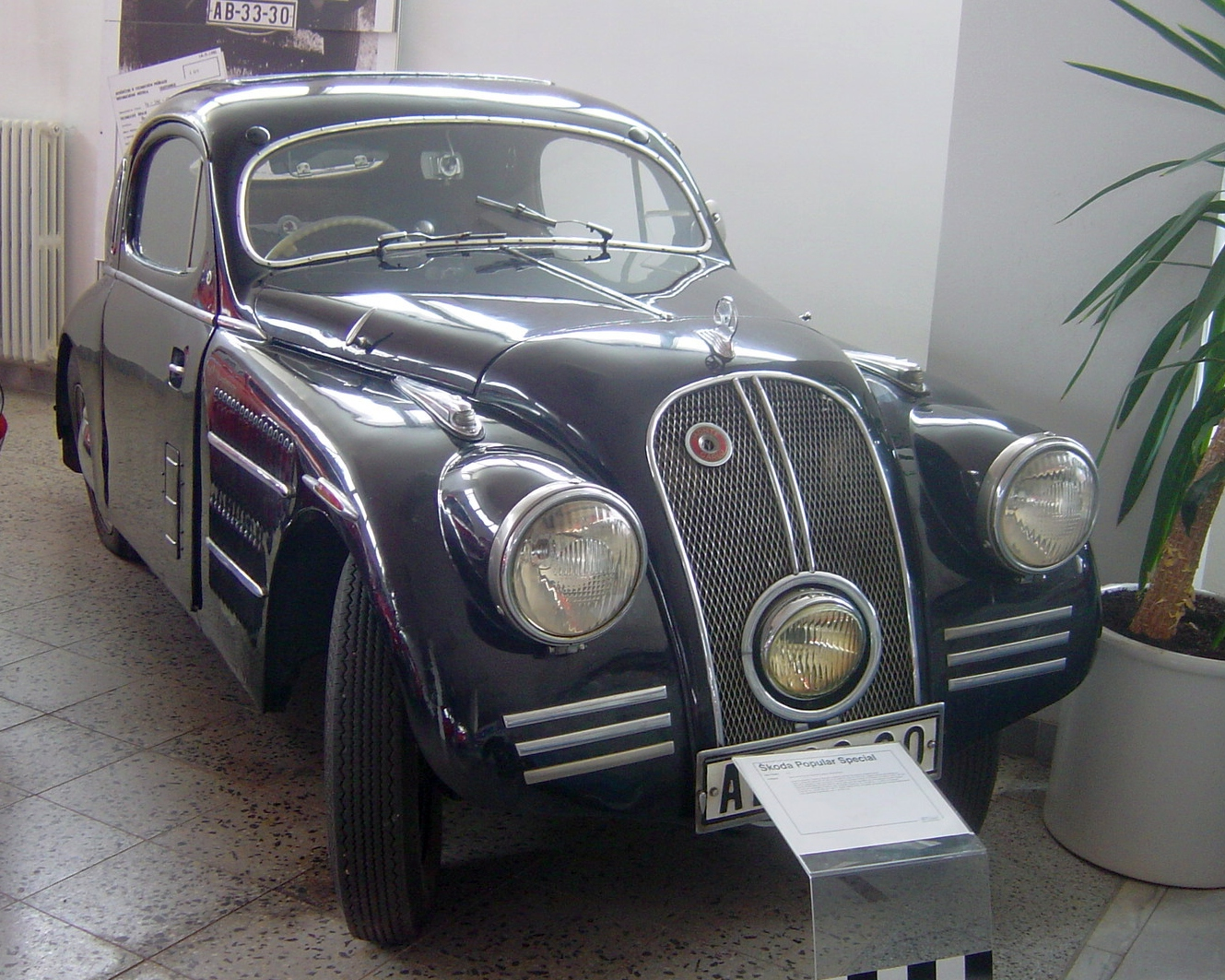 Škoda Popular Special at the Sportauto Museum, Lány.